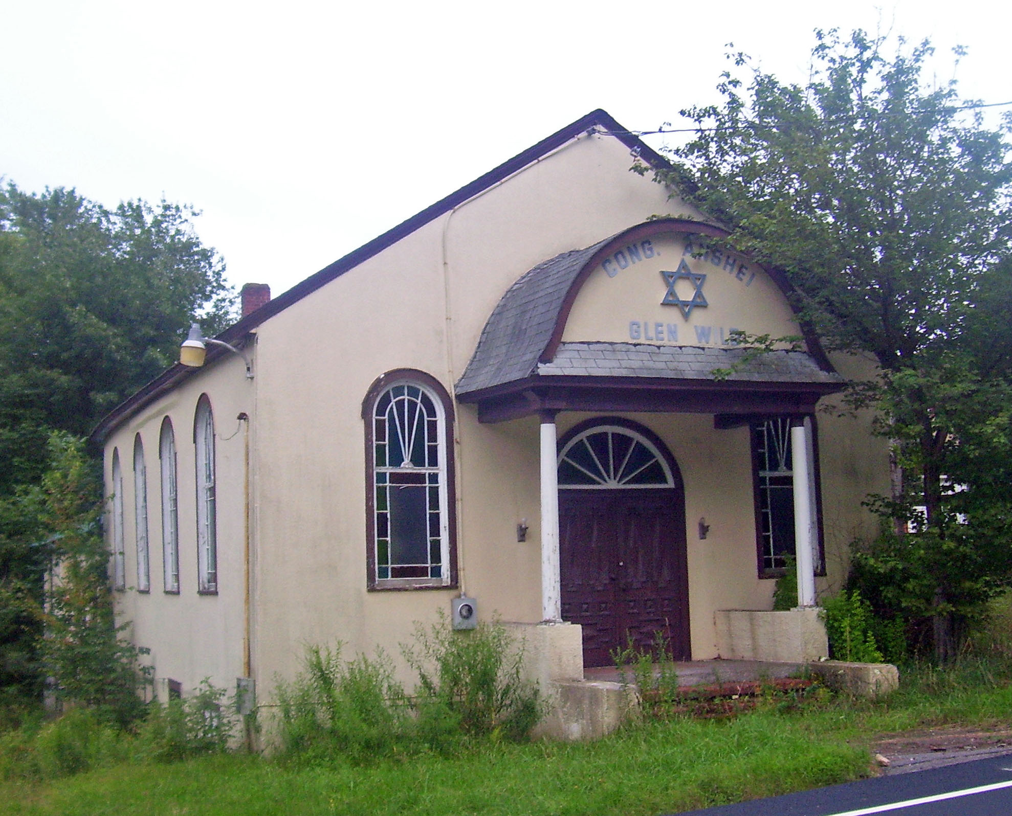 Anshei Glen Wild Synagogue, Town of Thompson, NY, USA